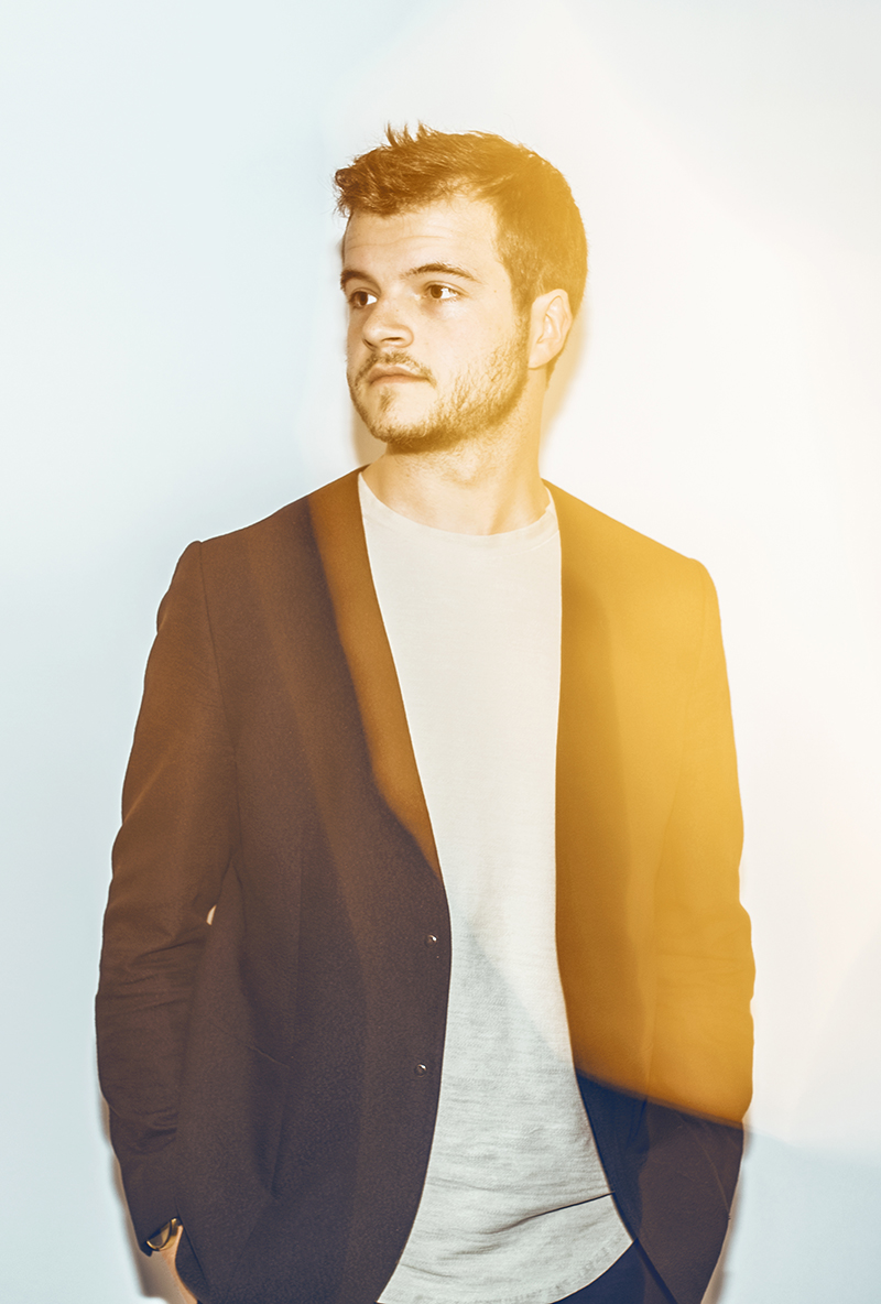 Press photo of the electronic musician and producer Haywyre from 2017.